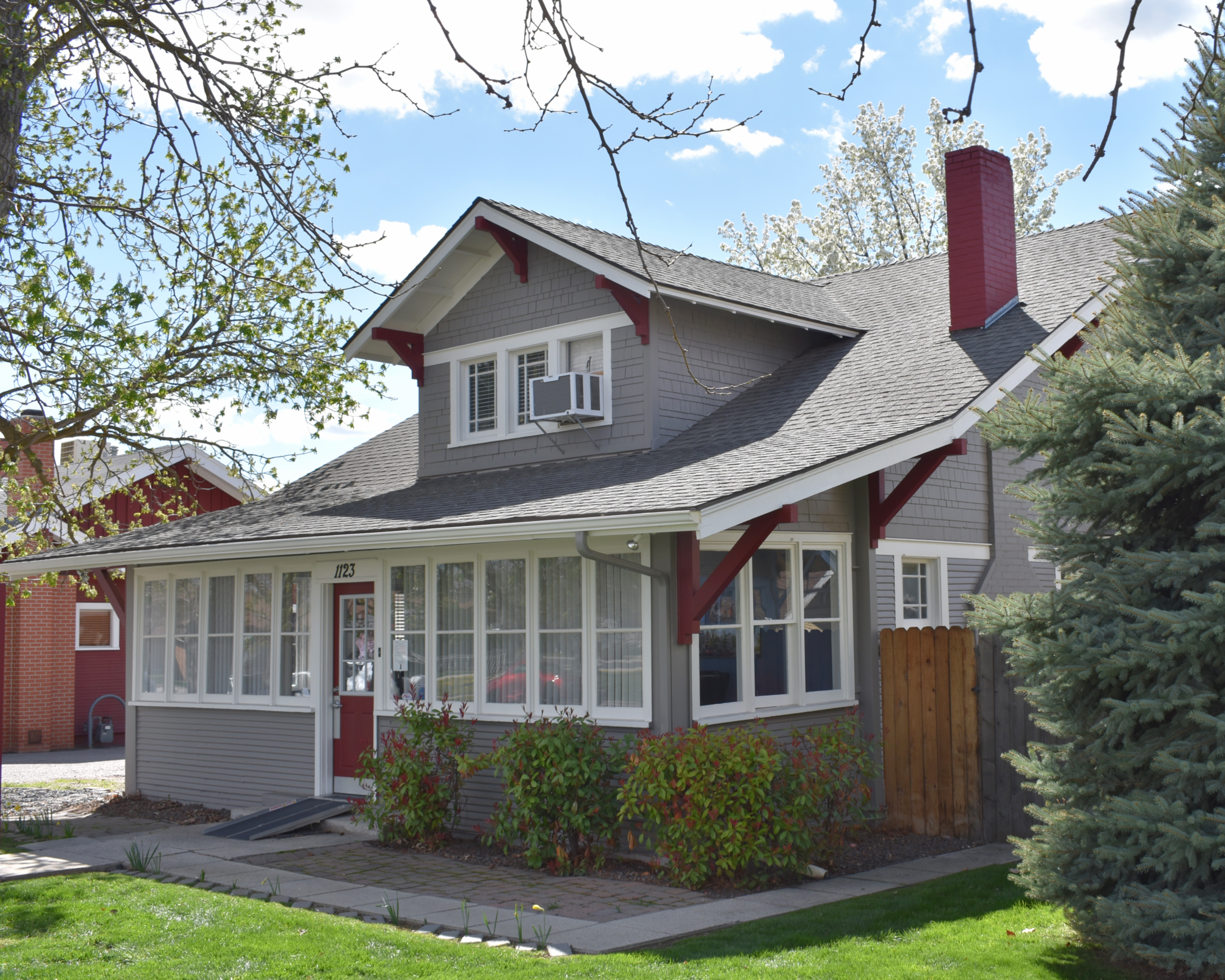 The Clara Hill House in Meridian, Idaho, was constructed in 1920 and is listed on the National Register of Historic Places.